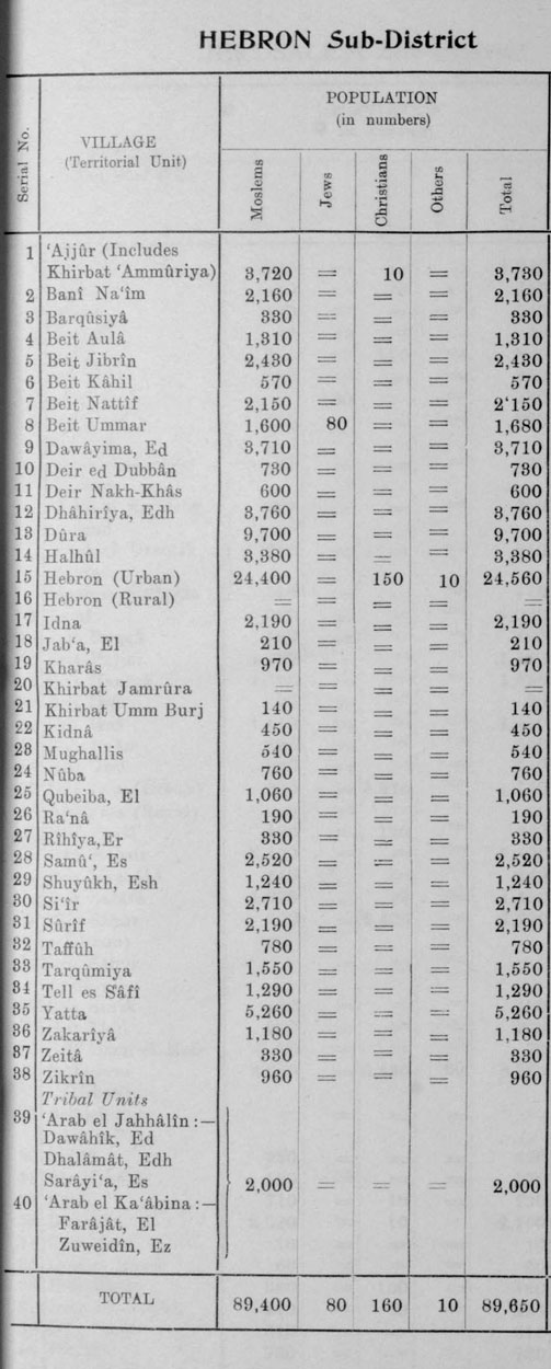 1945 Palestine Mandate Village Statistics